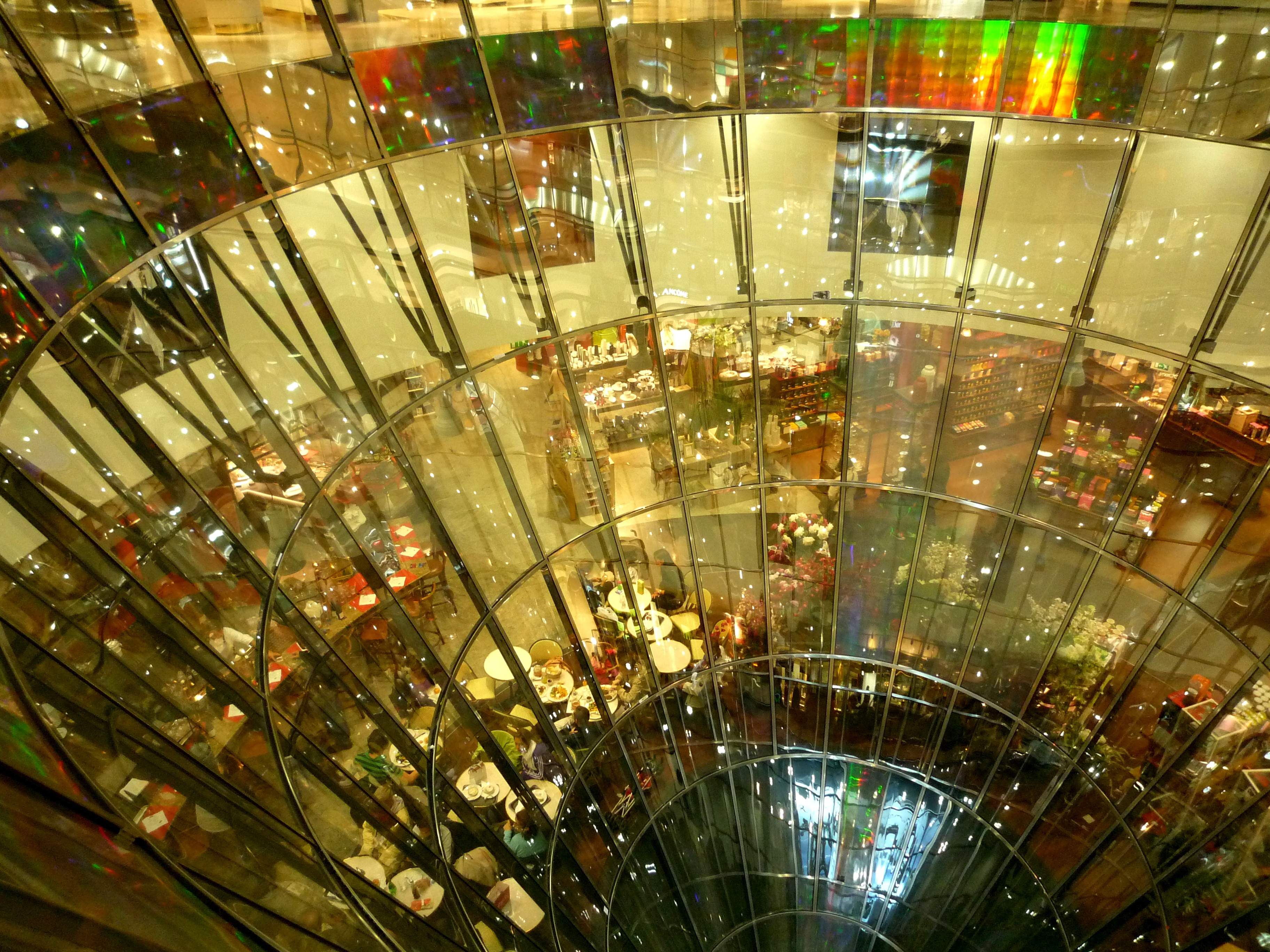 The warehouse "Galeries Lafyette" in Berlin, Friedrichstraße. Detail of the inside decoration.